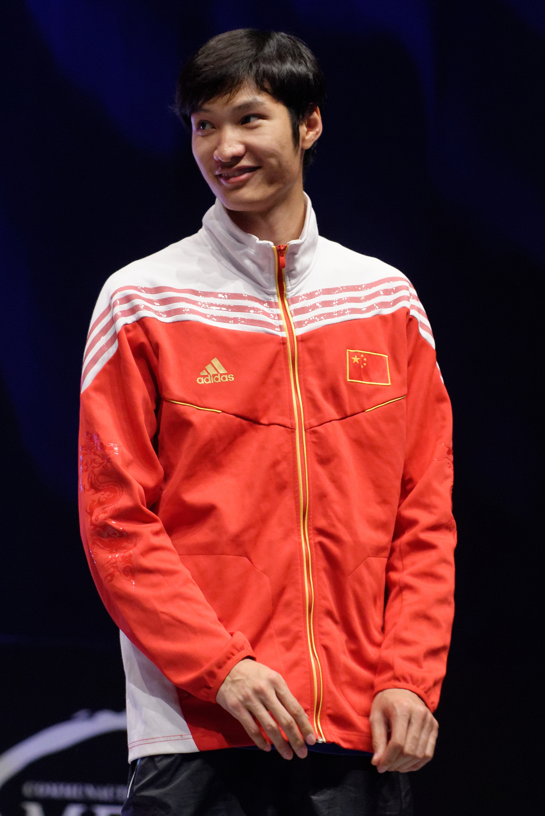 Lei Sheng at the trophies presentation of the Master de fleuret 2013 in Dammarie-les-lys, France.